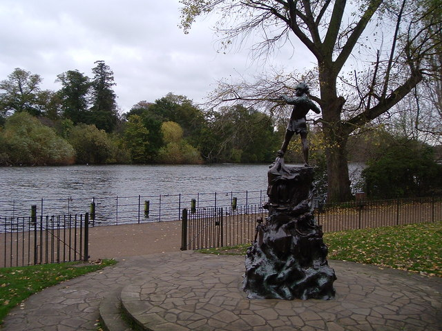 Peter Pan statue My old friend. On the last day of my last six visits to London, I spend some time with Peter before heading to the airport. The first time we met, I snapped his picture, and it was the last frame of my last roll of my last day. Sniff..